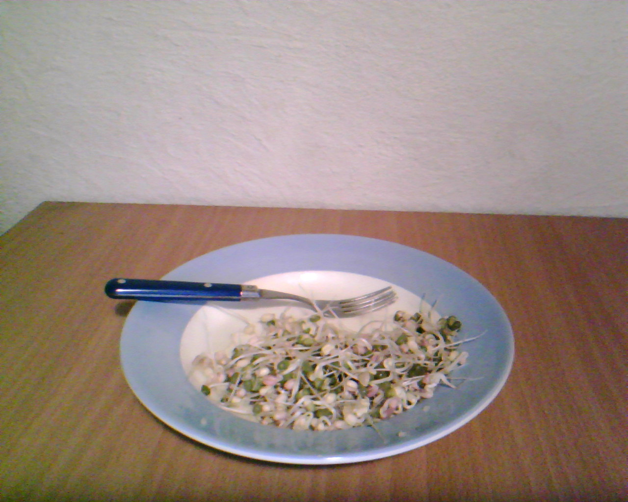 Soybean sprouts in a white and blue plate, with a blue fork